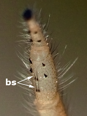 Ventral surface of tibia of first leg of a female Colonus puerperus jumping spider. The two pairs of bulbous spines (or setae) near the bottom of the photograph are characteristic of the genus Colonus and closely related genera.